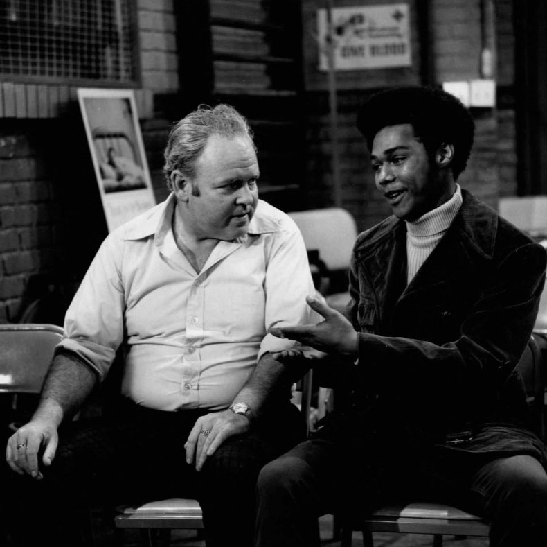 Publicity photo from the television program All in the Family. Pictured are Carroll O'Connor (Archie Bunker) and Michael Evans (Lionel Jefferson). In this episode, Archie visits a local blood bank to donate and meets his neighbor, Lionel Jefferson, who is also there to donate.